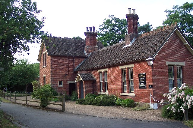 Baynards Railway Station